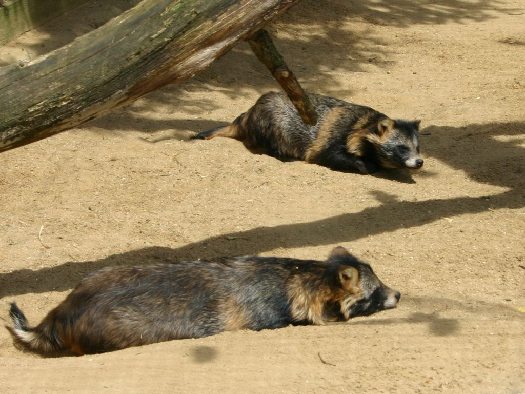 Raccoon Dog (Nyctereutes procyonoides, Nyctereutes, Canini, Canidae); Marderhund im Wildgehege Hellenthal